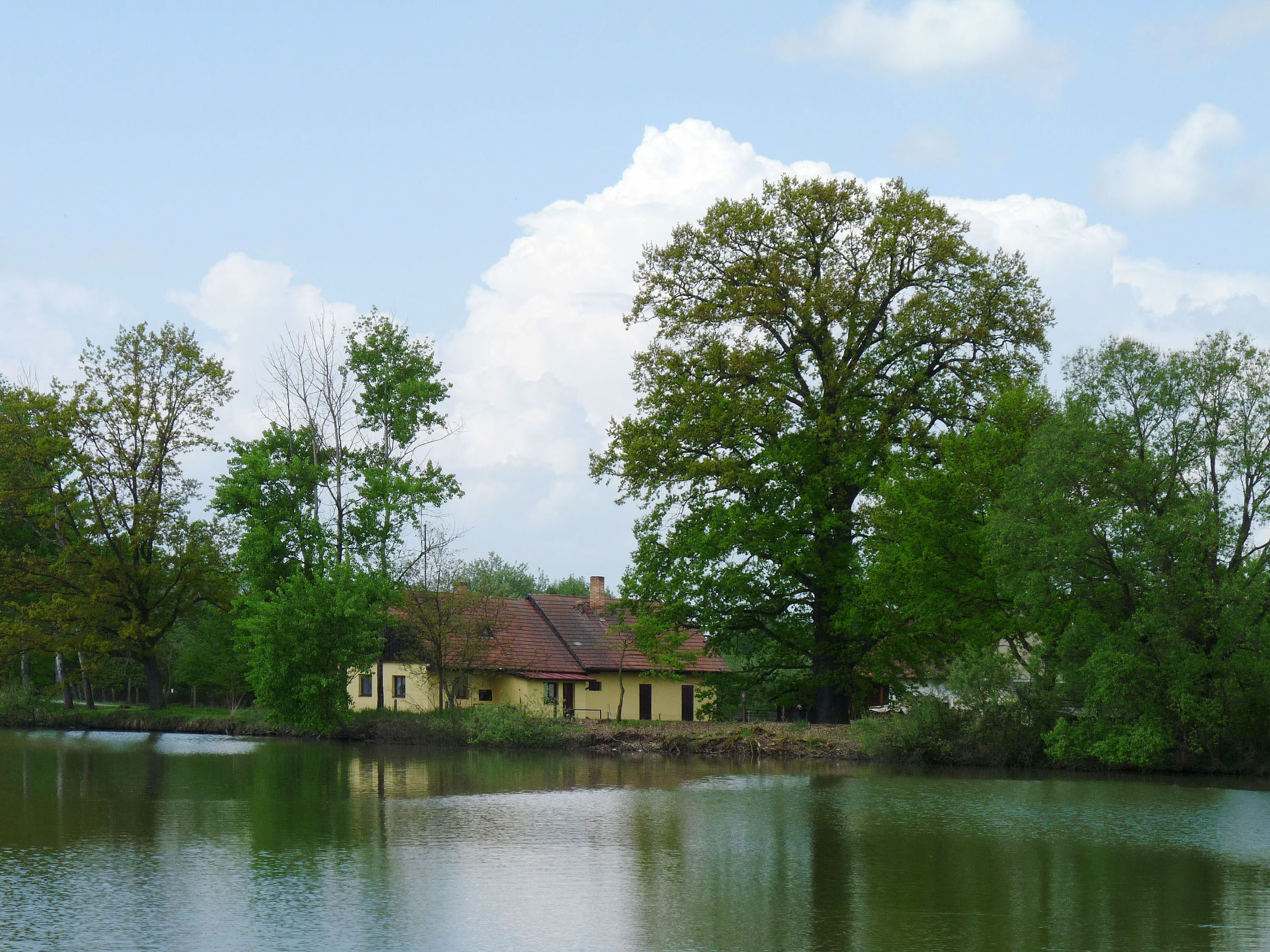 Oak tree, famous tree at the village of Haklovy Dvory - Nové Dvory, České Budějovice district, Czech Republic.